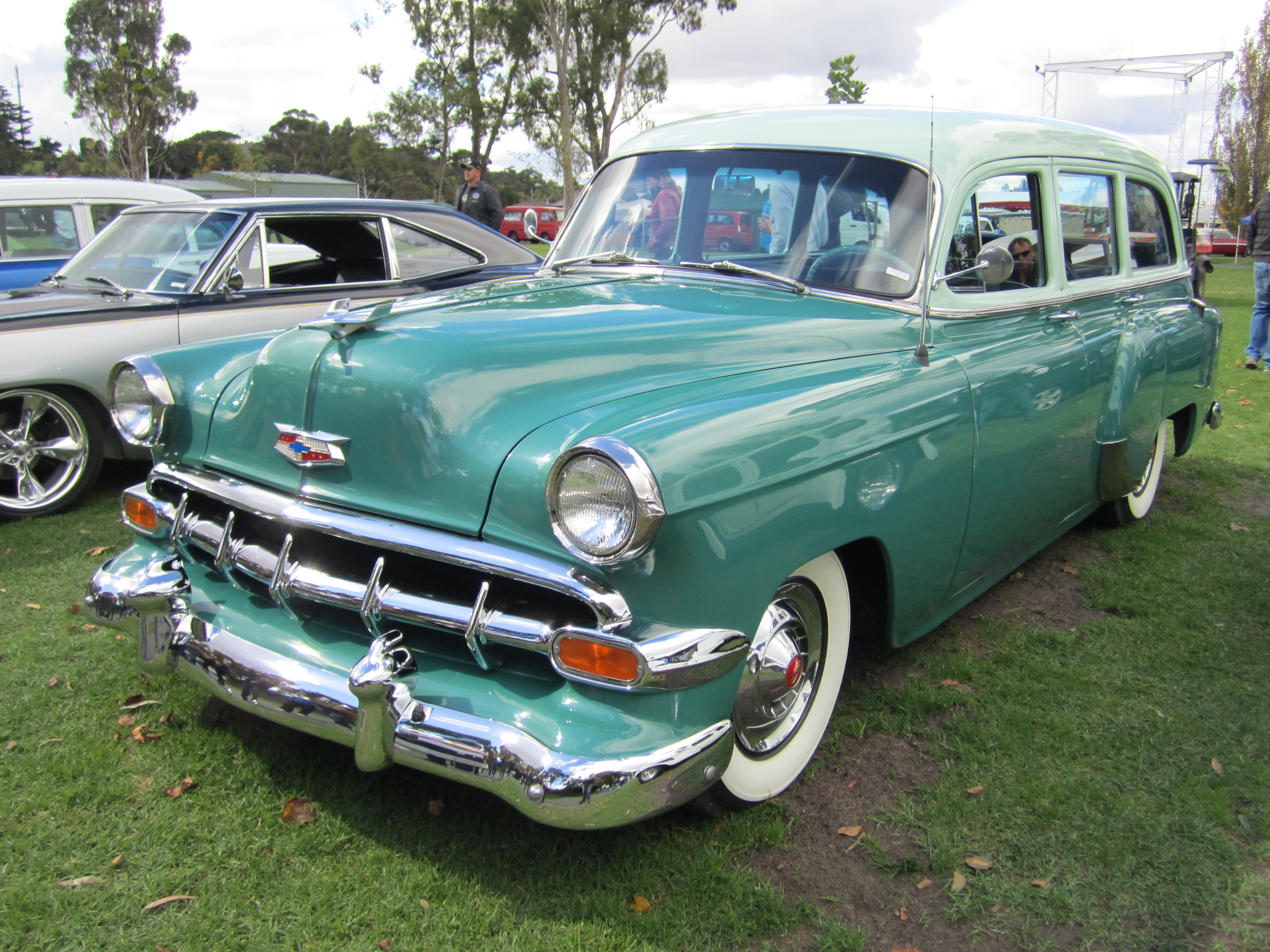 Available in Base 150, mid 210 & Belair. Bodys; Sedan, Coupe, Hardtop, Wagon & Convertible. Engine; 235 cu in 6 cyl